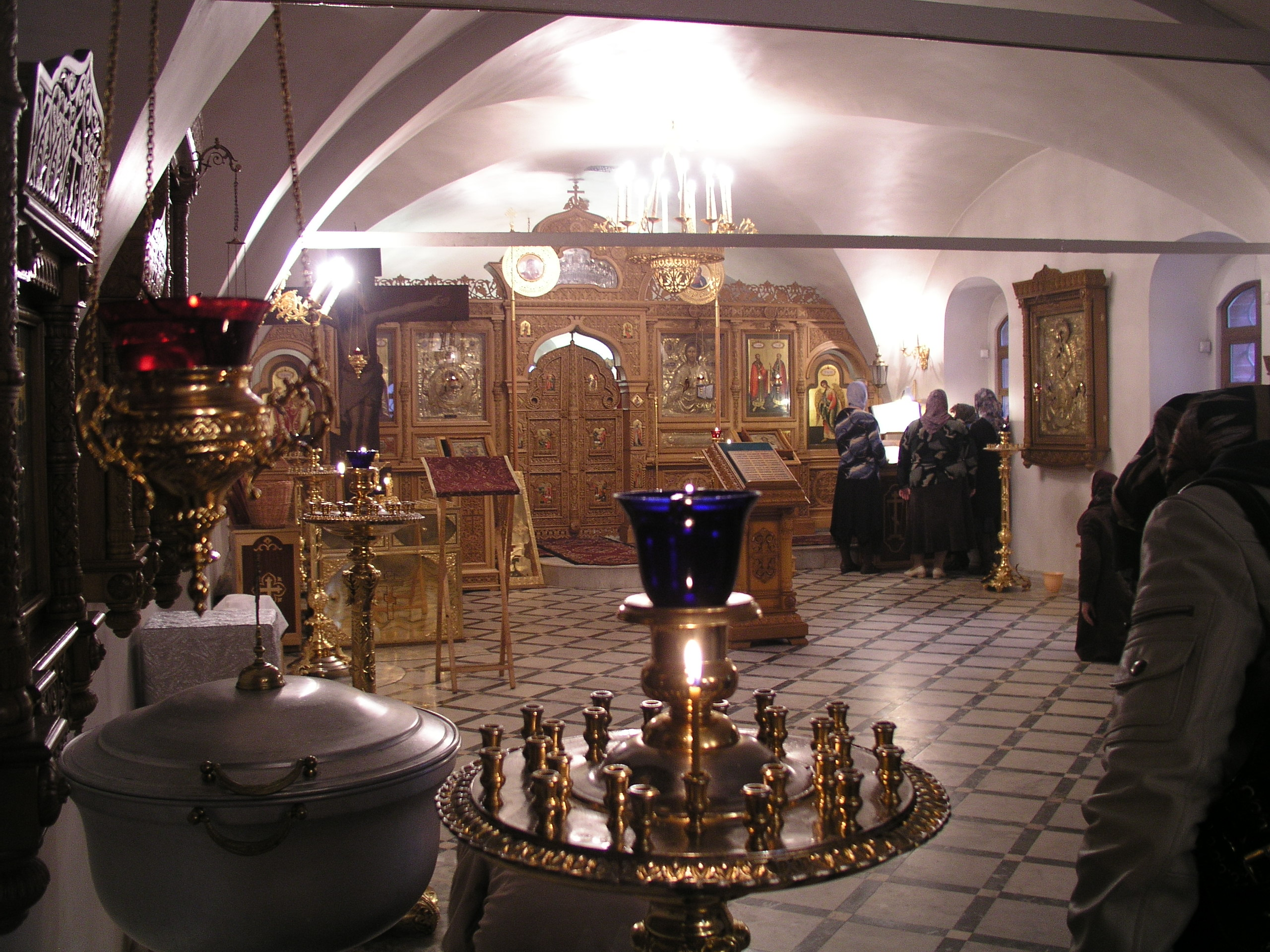 Saint John the Baptist church in Yaroslavl